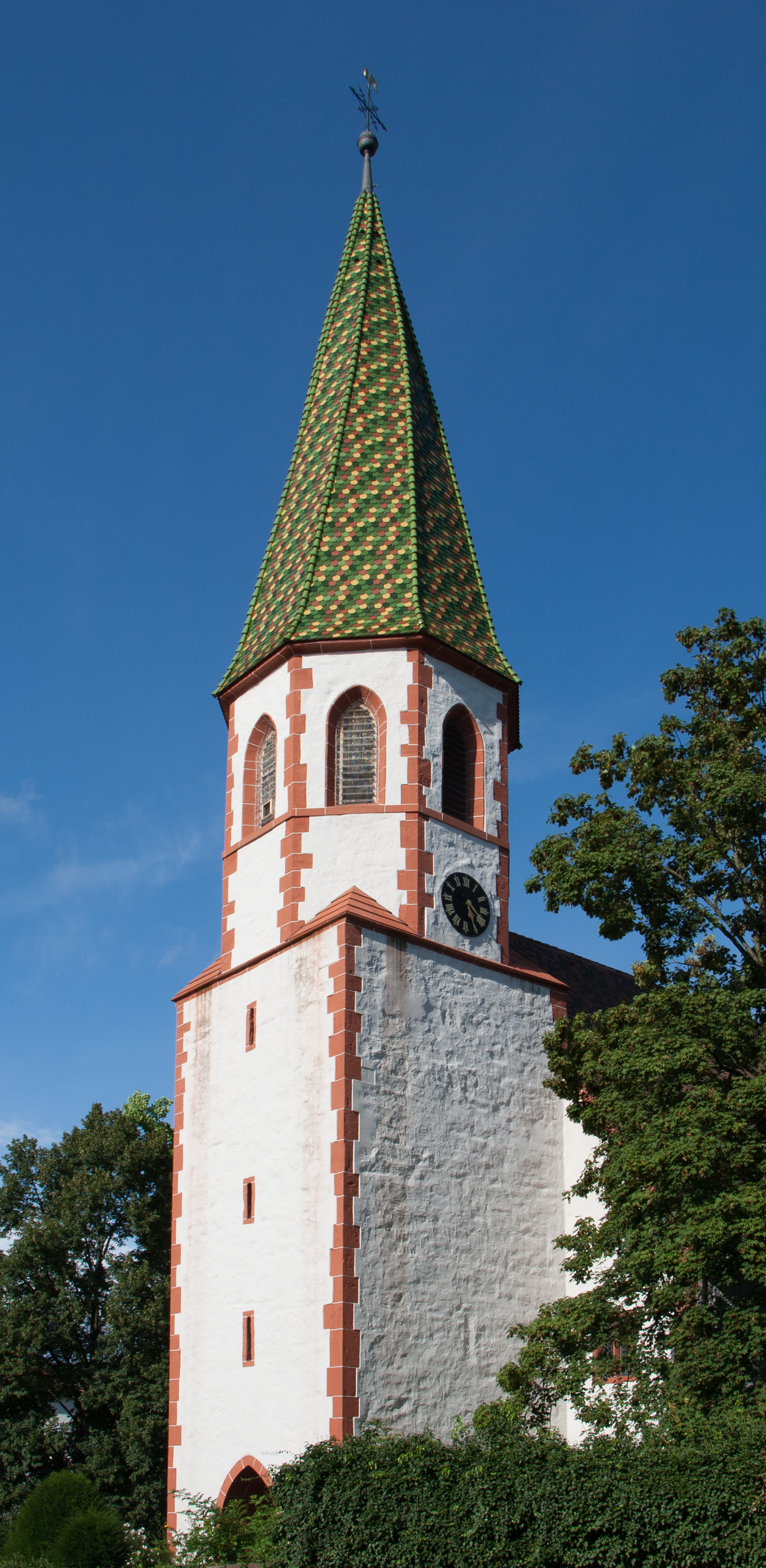 The protestant church of Karlsruhe-Grötzingen, view from the south